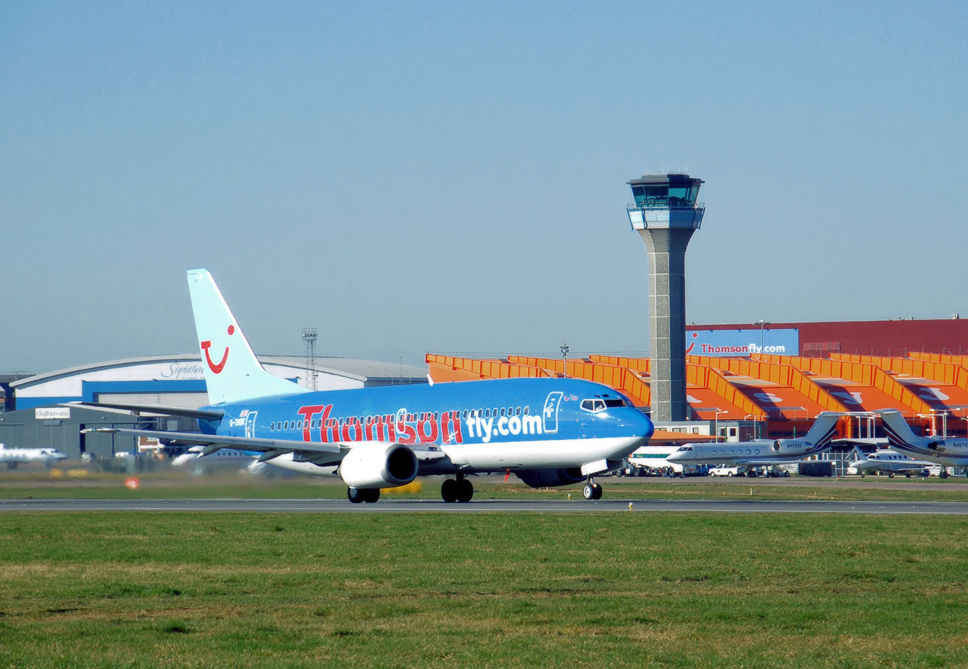 View across London Luton Airport, taken from the aircraft spotters viewpoint at the crash barrier on the south side of the airport. The Thomsonfly Boeing 737-300 (G-THOK) is just lifting off. The orange hangars belong to easyJet. Private jets are visible. Photographed by Adrian Pingstone in February 2007 and released to the public domain.